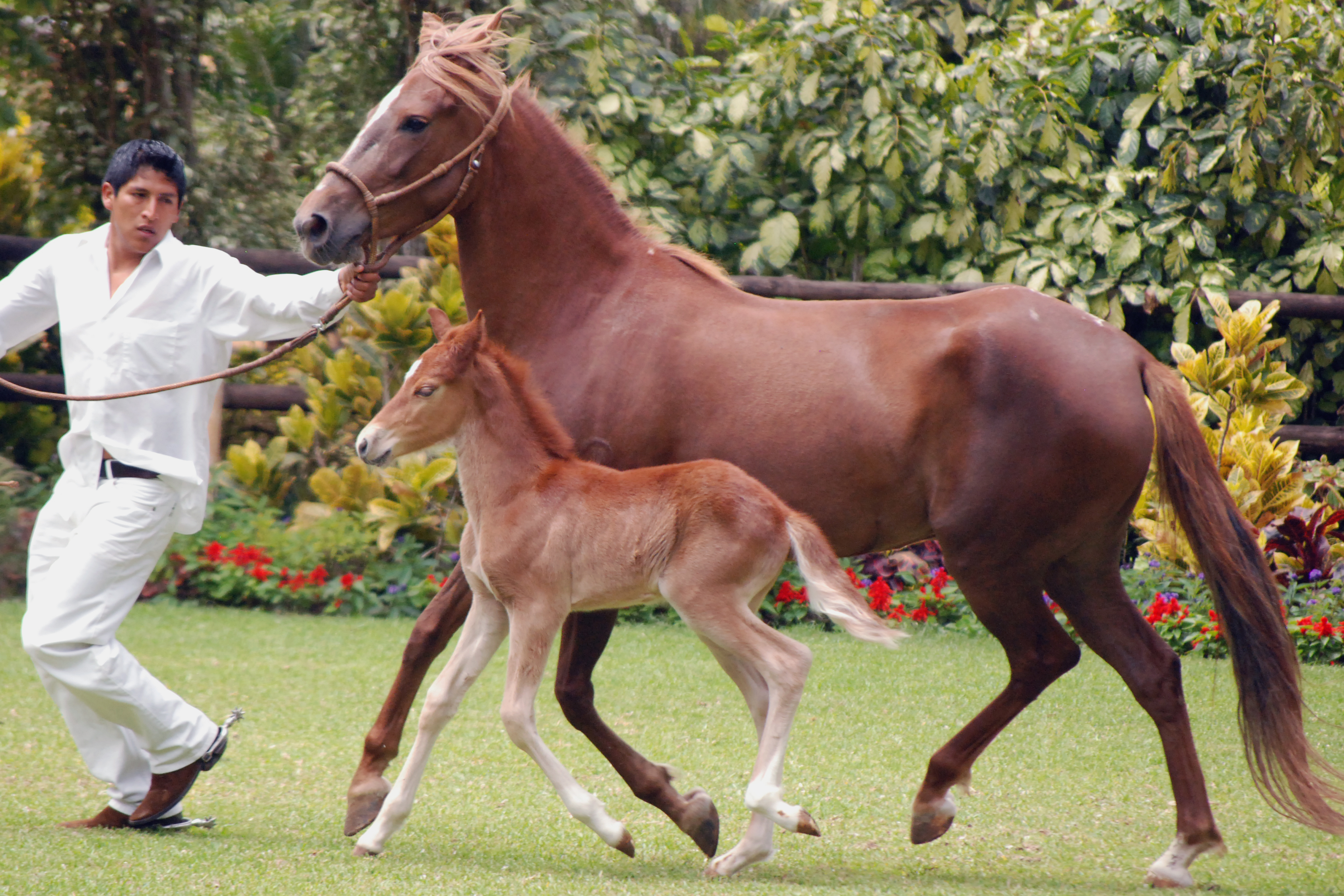 Peruvian Paso with foal at the Hacienda Mamacona